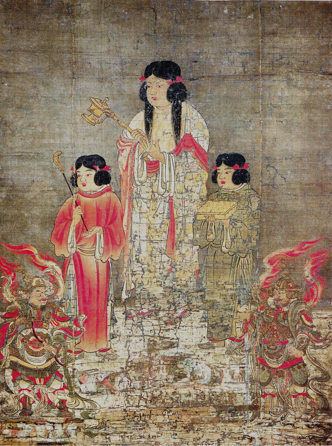 Shotoku Taishi preserved at Kakurin-ji